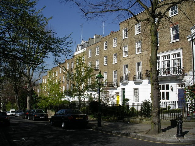 Campden Hill Square, W8 The eastern side of Campden Hill Square. This square was formerly known as Notting Hill Square and was renamed in 1893. The square has fine terraced houses around three sides of a large garden enclosure. The square rises on the south side of Holland Park Avenue.